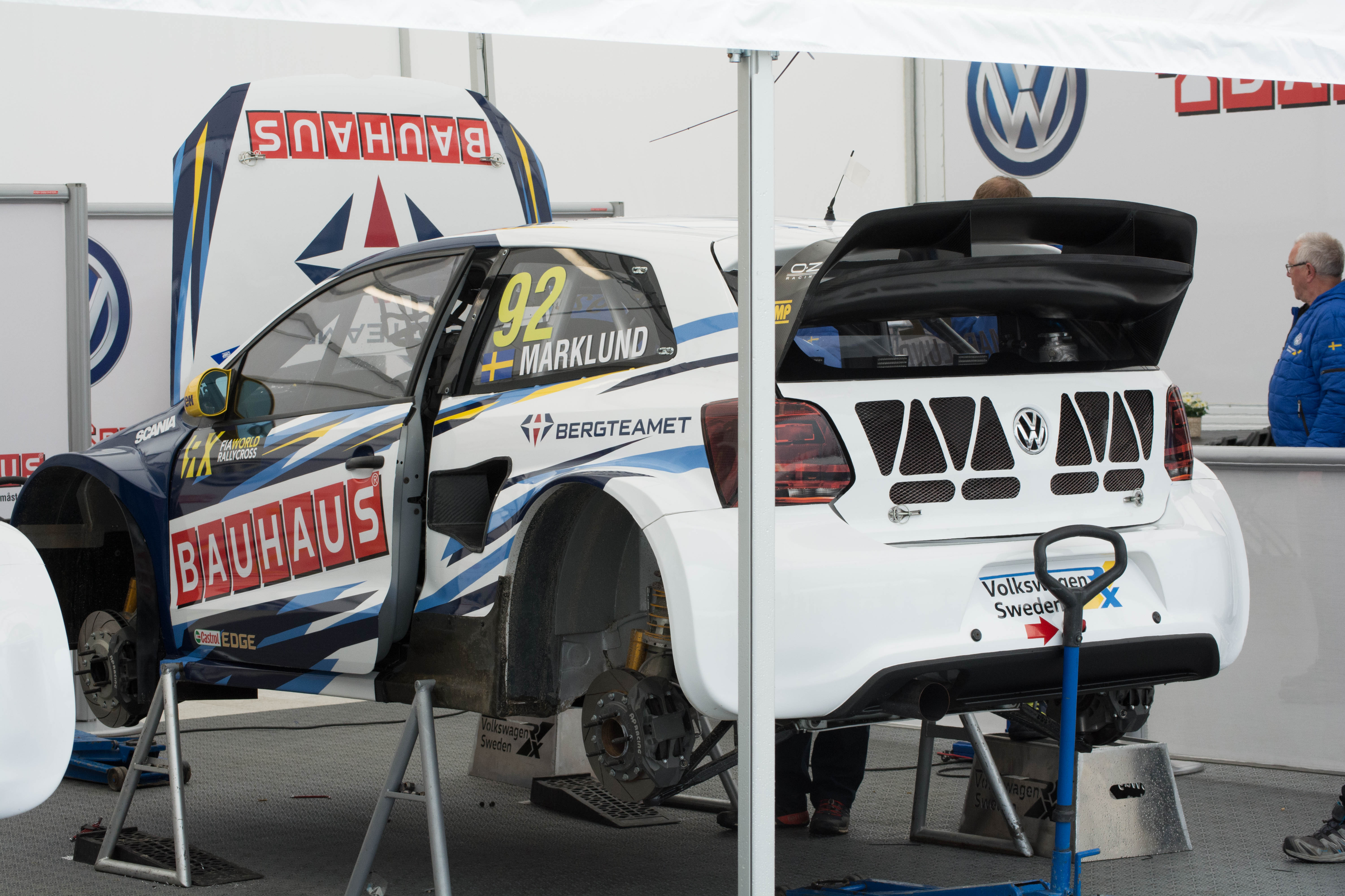 Portugal Montalegre 2016